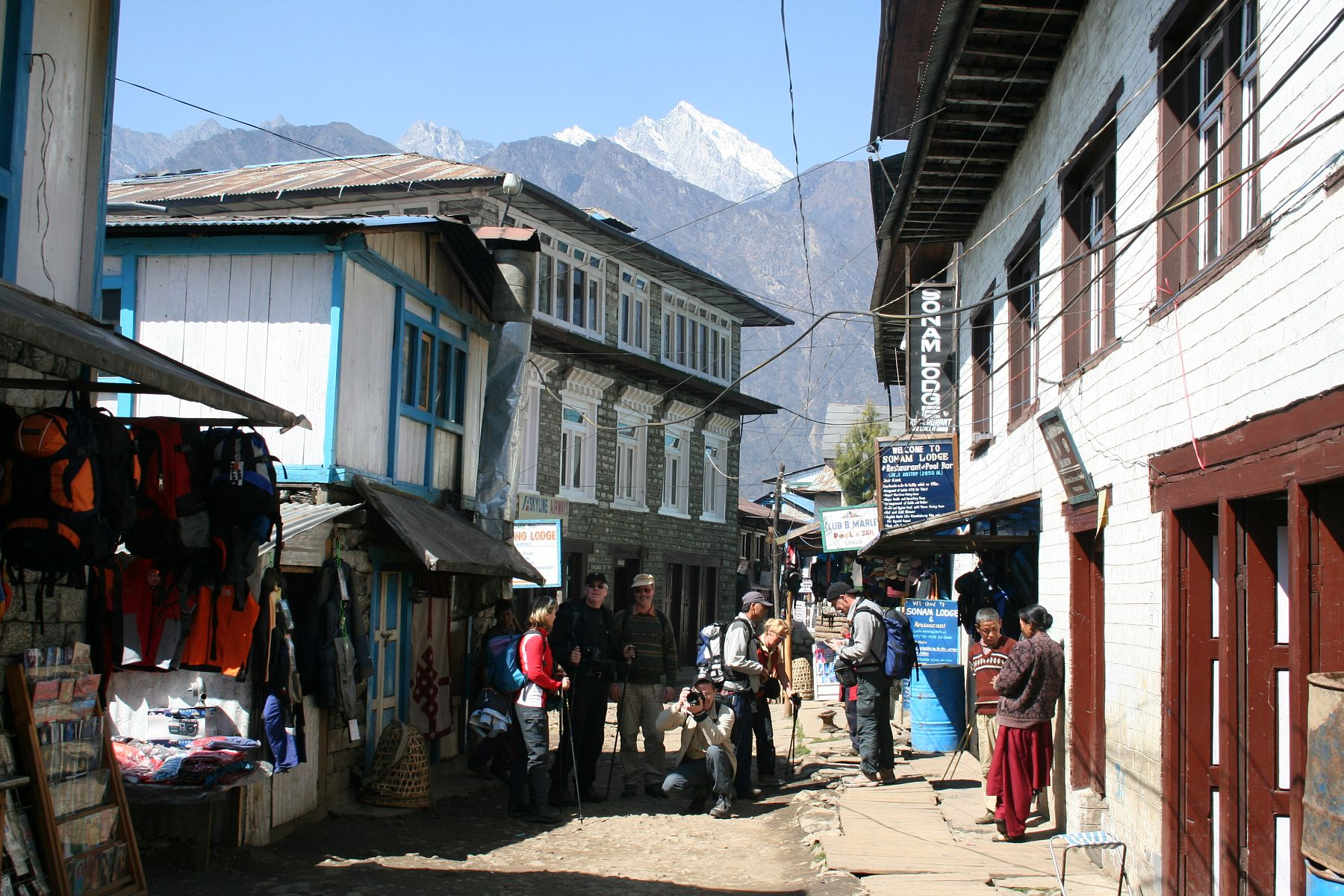 Lukla, shops on "main street"